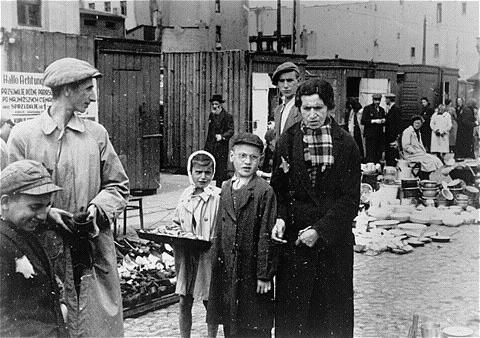 Ghetto Litzmannstadt: A child tries to sell her wares in an open market in the ghetto